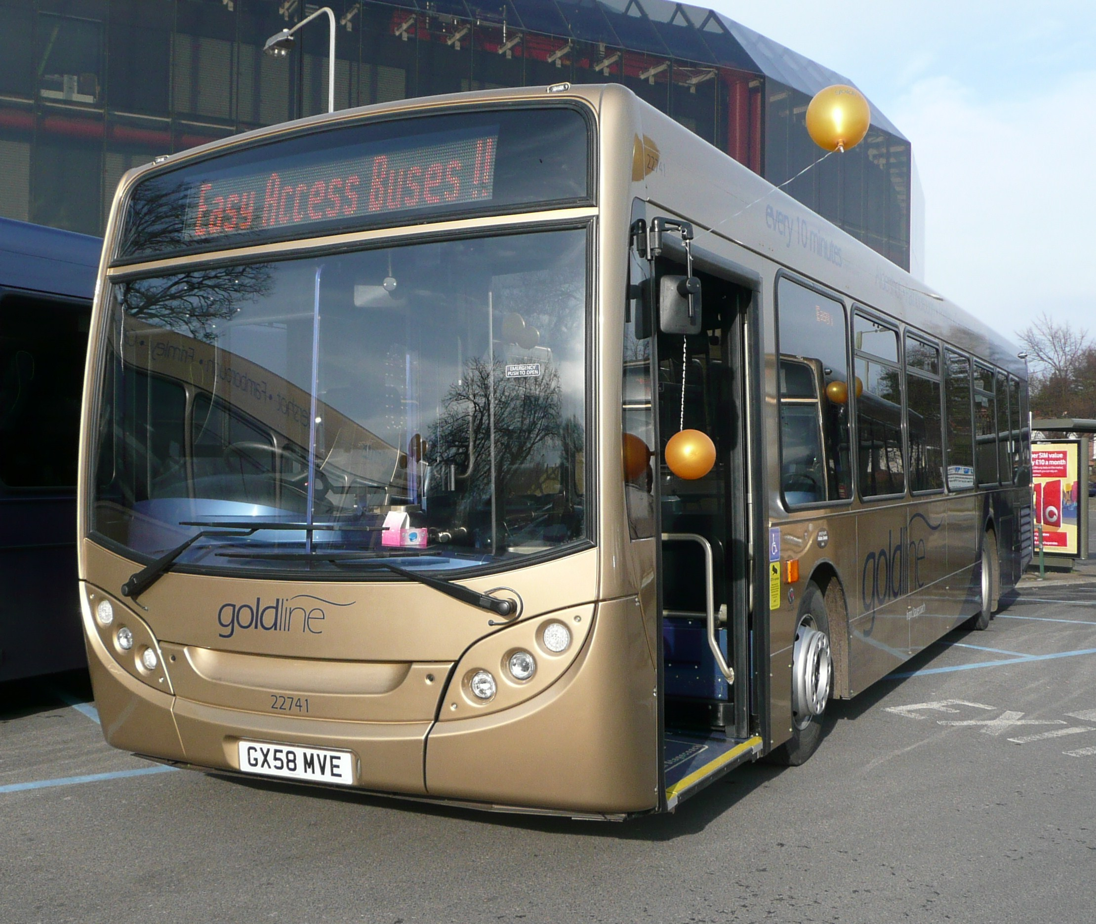 Stagecoach in Hants & Surrey's 22741 (GX58 MVE), a MAN 18.240/Alexander Dennis Enviro300 in Farnborough at the launch of route 1 to Stagecoach Goldline status.